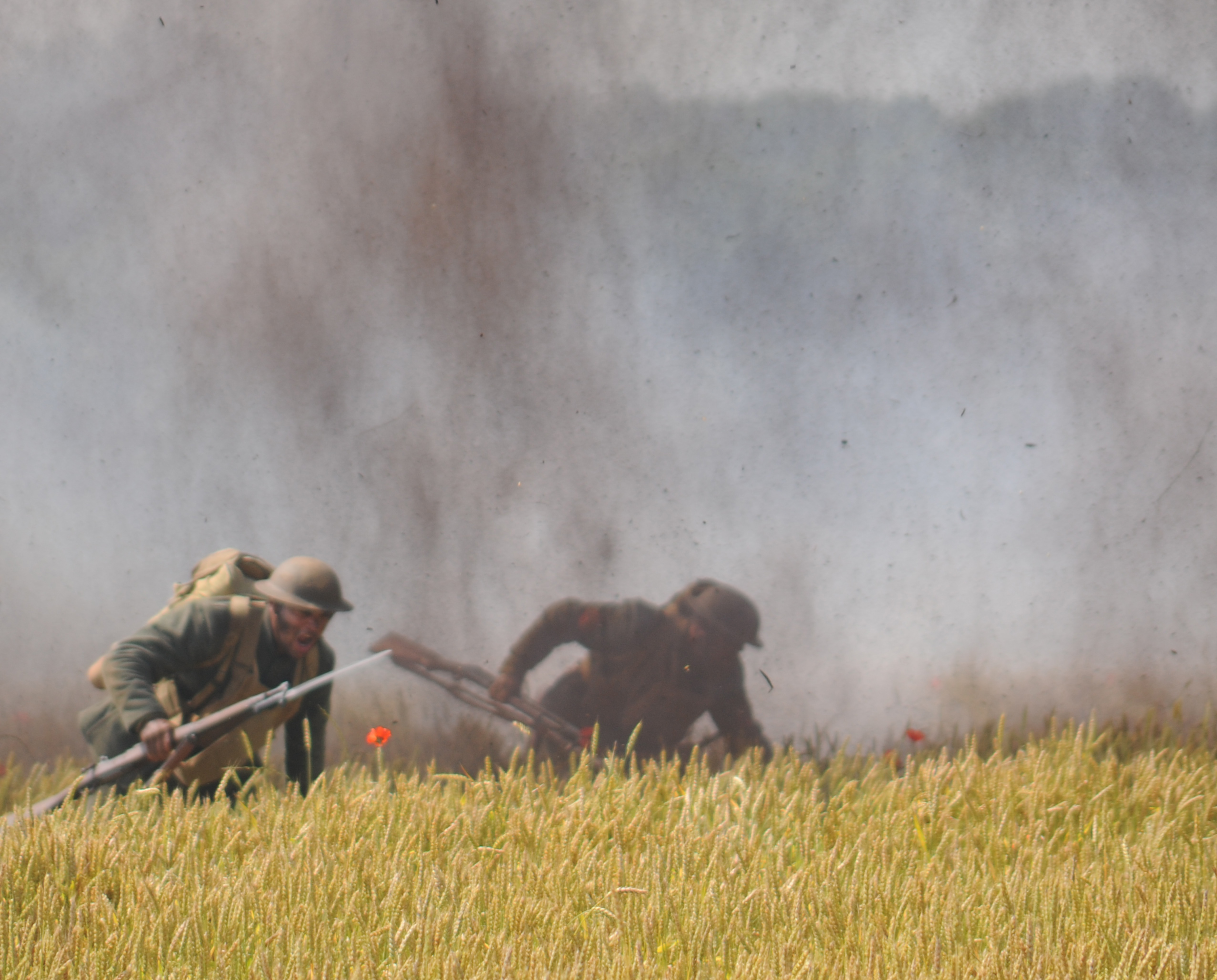 Marines from Quantico negotiate their way through a wheat field with explosive special effects during the filming of the re-enactment of the Battle of Belleau Wood on June 9 near Bealeton, Va.